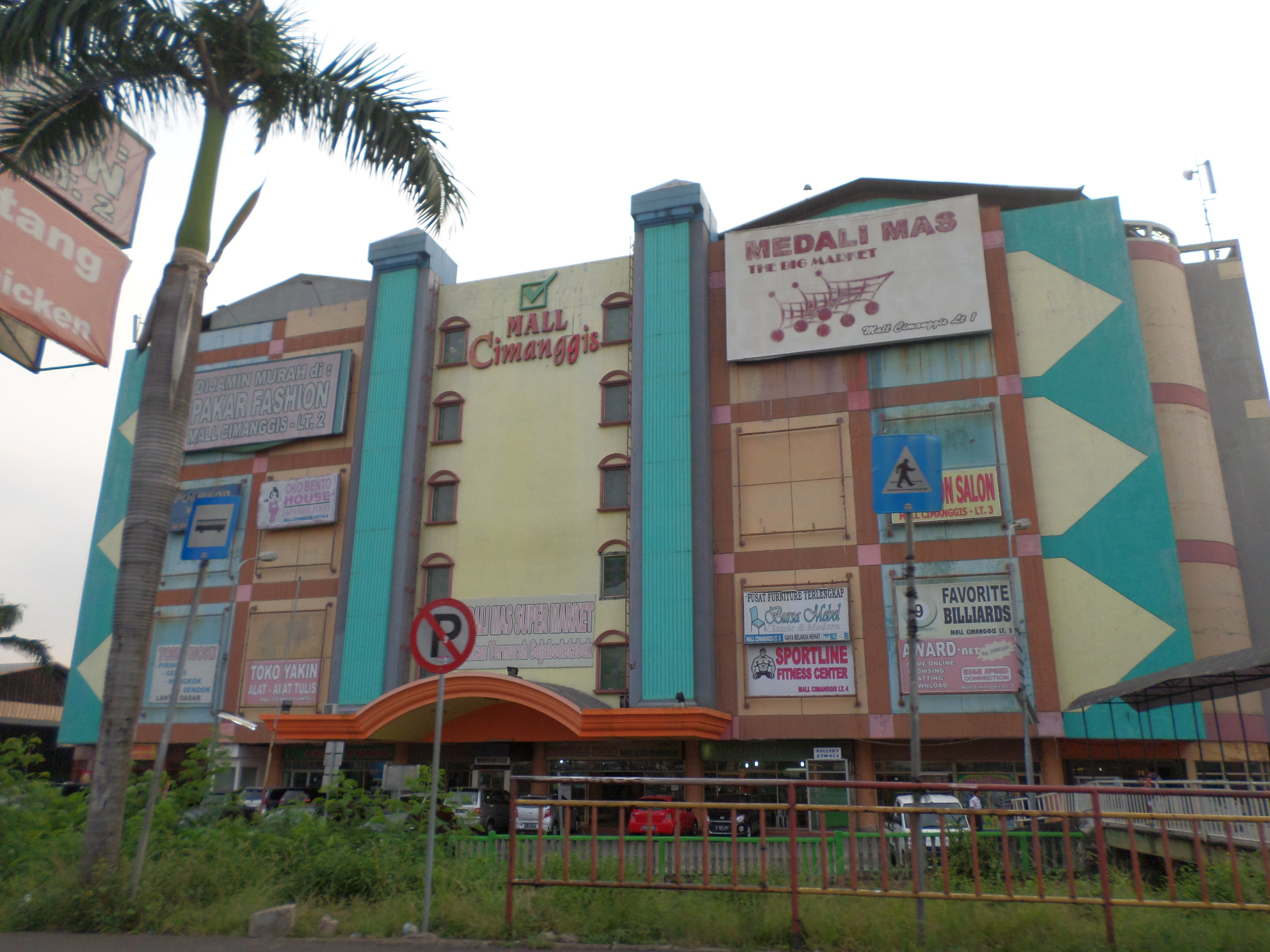 Cimanggis Mall, Cimanggis, Depok, West Java, Indonesia